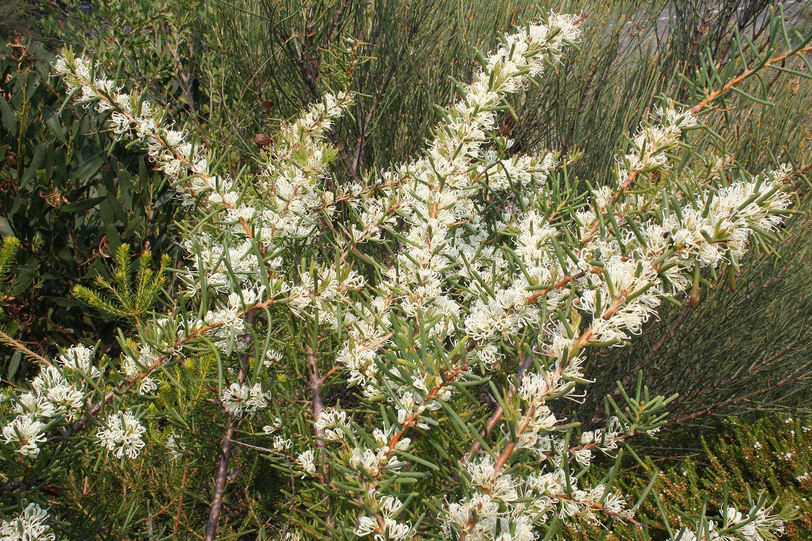 Hakea teretifolia - Botany Bay National Park, Kurnell